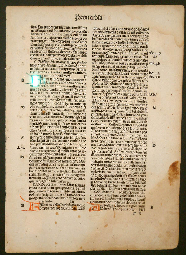 Photograph of a page from a rare Blackletter bible (1497) printed in Strasbourg by Johann Grüninger.[1] The coloured chapter initials were handwritten after printing. The original is owned by the submitter. The page contains the Book of Proverbs ("Proverbs of Solomon"). Read for example chapter II: "fili mi si susceperis sermones meos et mandata mea absconderis penes te" ( See also: Detail of chapter initial.